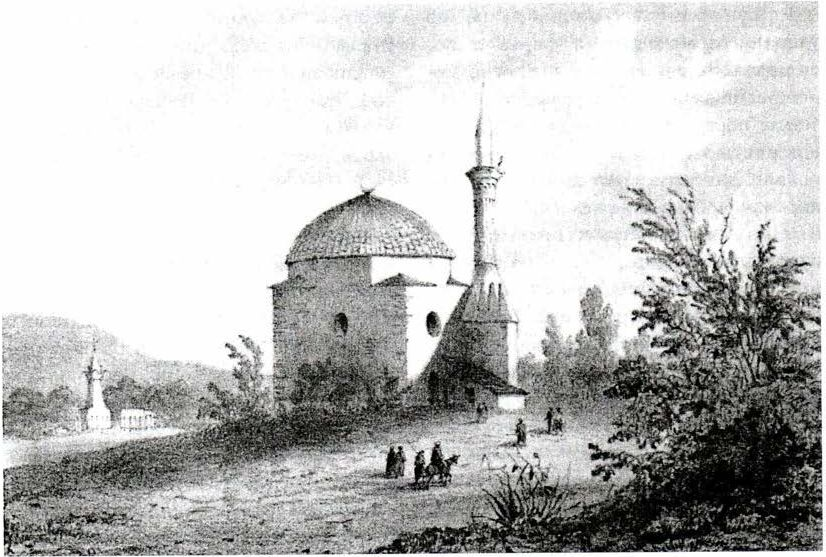 Mosque Karagoz, 1843